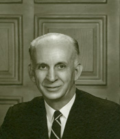 former congressman Robert T. Ashmore of South Carolina.